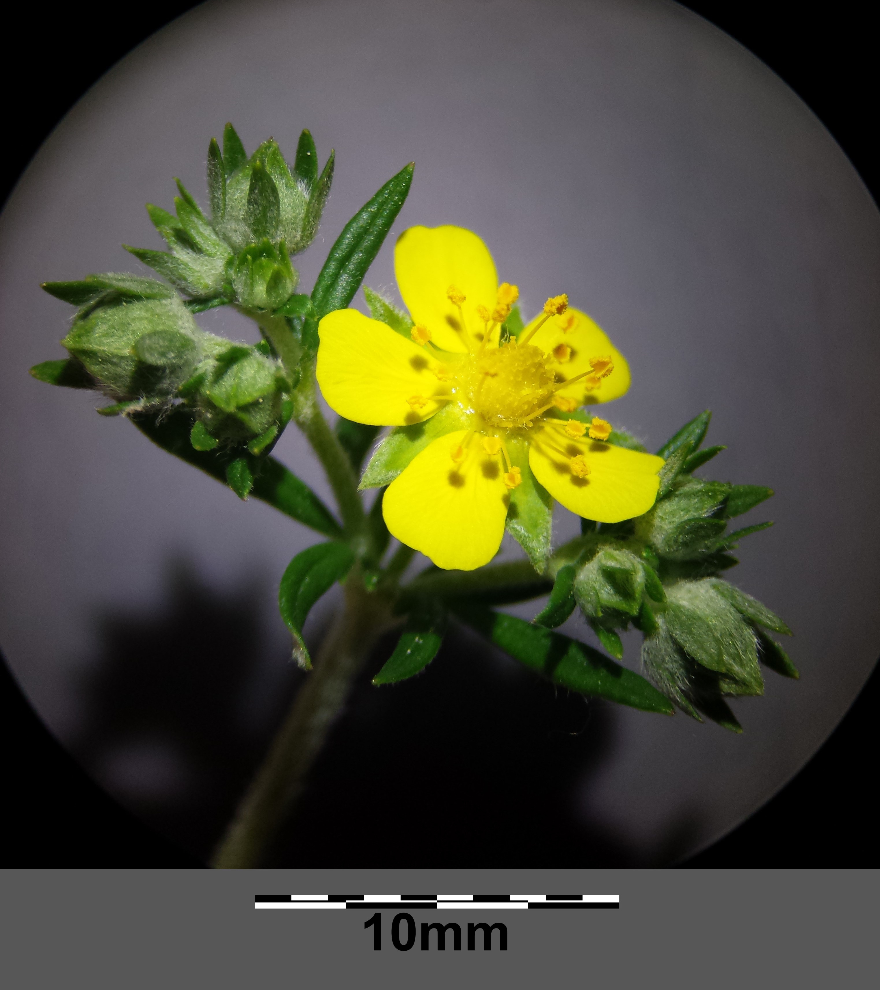 Inflorescence Taxonym: Potentilla argentea ss Fischer et al. EfÖLS 2008 ISBN 978-3-85474-187-9 Location: Siebeckstraße, Vienna-Donaustadt - ca. 160 m a.s.l. Habitat: ruderal meadows